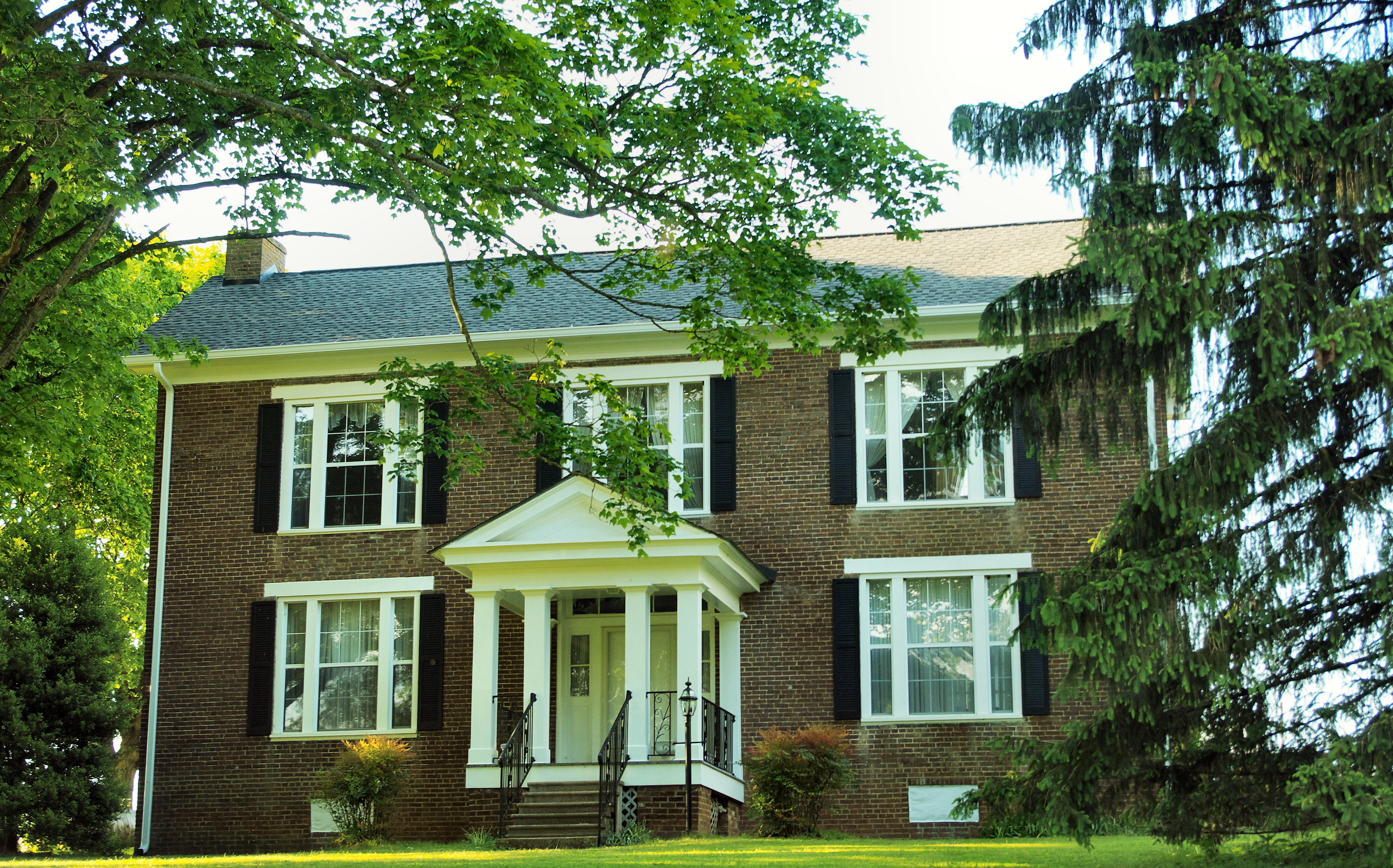 The Robert N. Mann House in the Old Salem community of Franklin County, Tennessee, United States. Built in 1849, this house is now listed on the National Register of Historic Places.